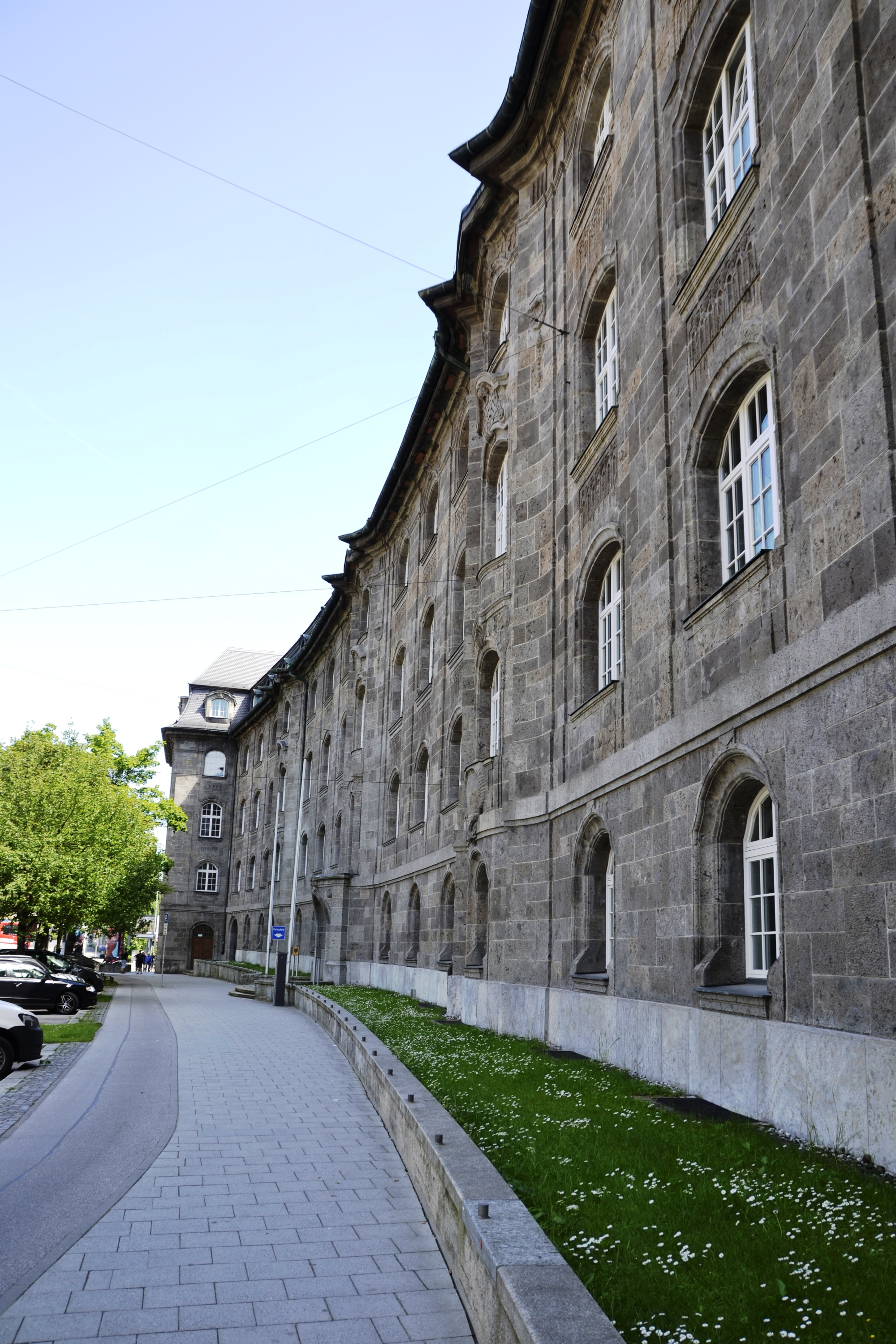 Munich, Arnulfstraße 9/11. Munich Main Station between Starnberger Wing Station and Arnulfstrasse near Paul Heyse Underpass.